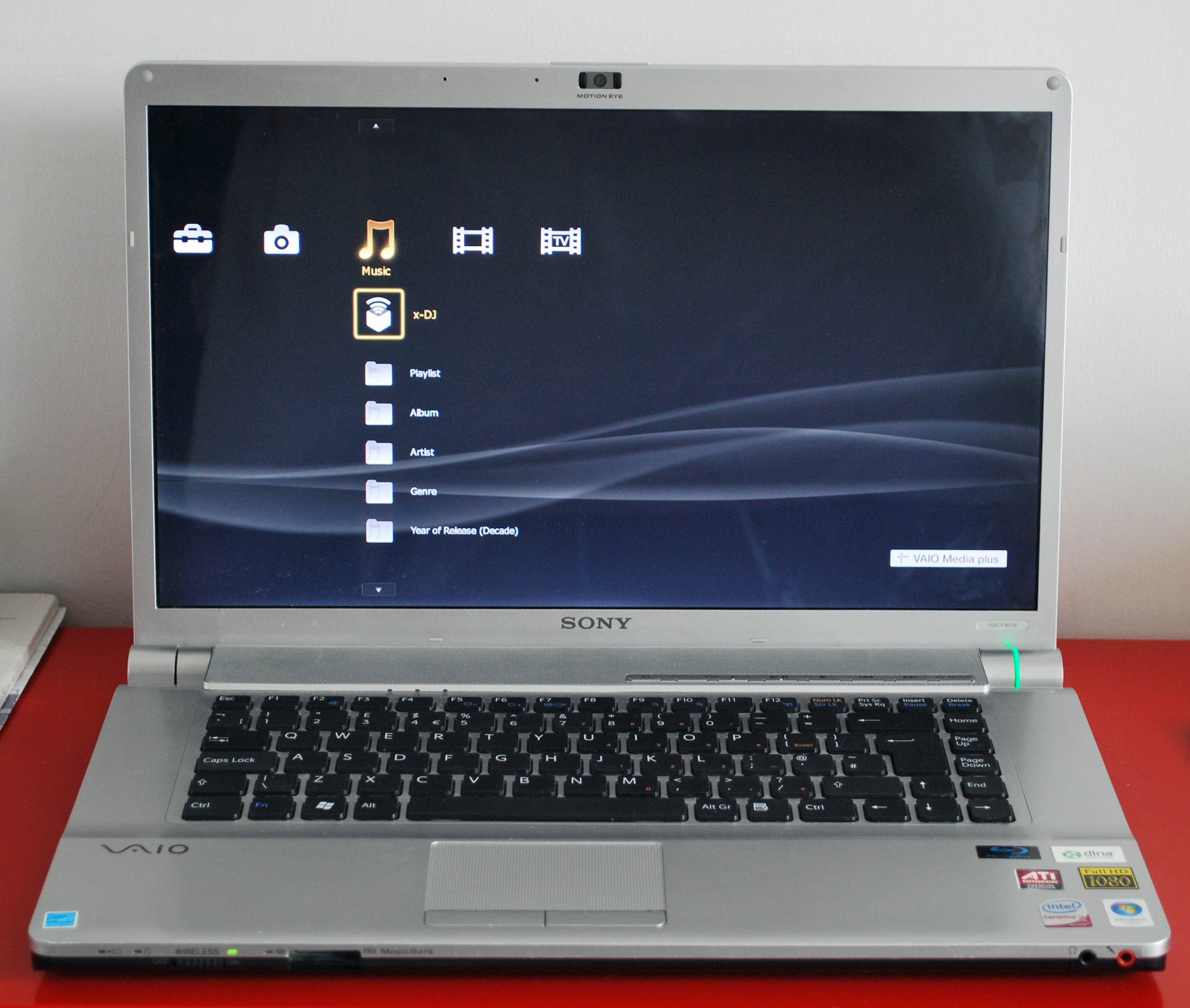 photo of sony vaio vgn-fw21e